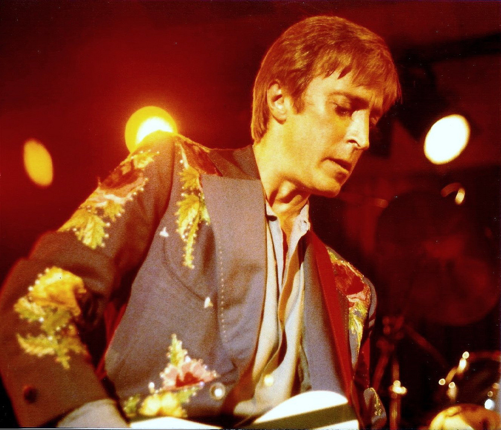 Mick Ronson during the Ian Hunter Short Back n Sides Tour at the Old Waldorf in San Francisco on 26 October 1981.